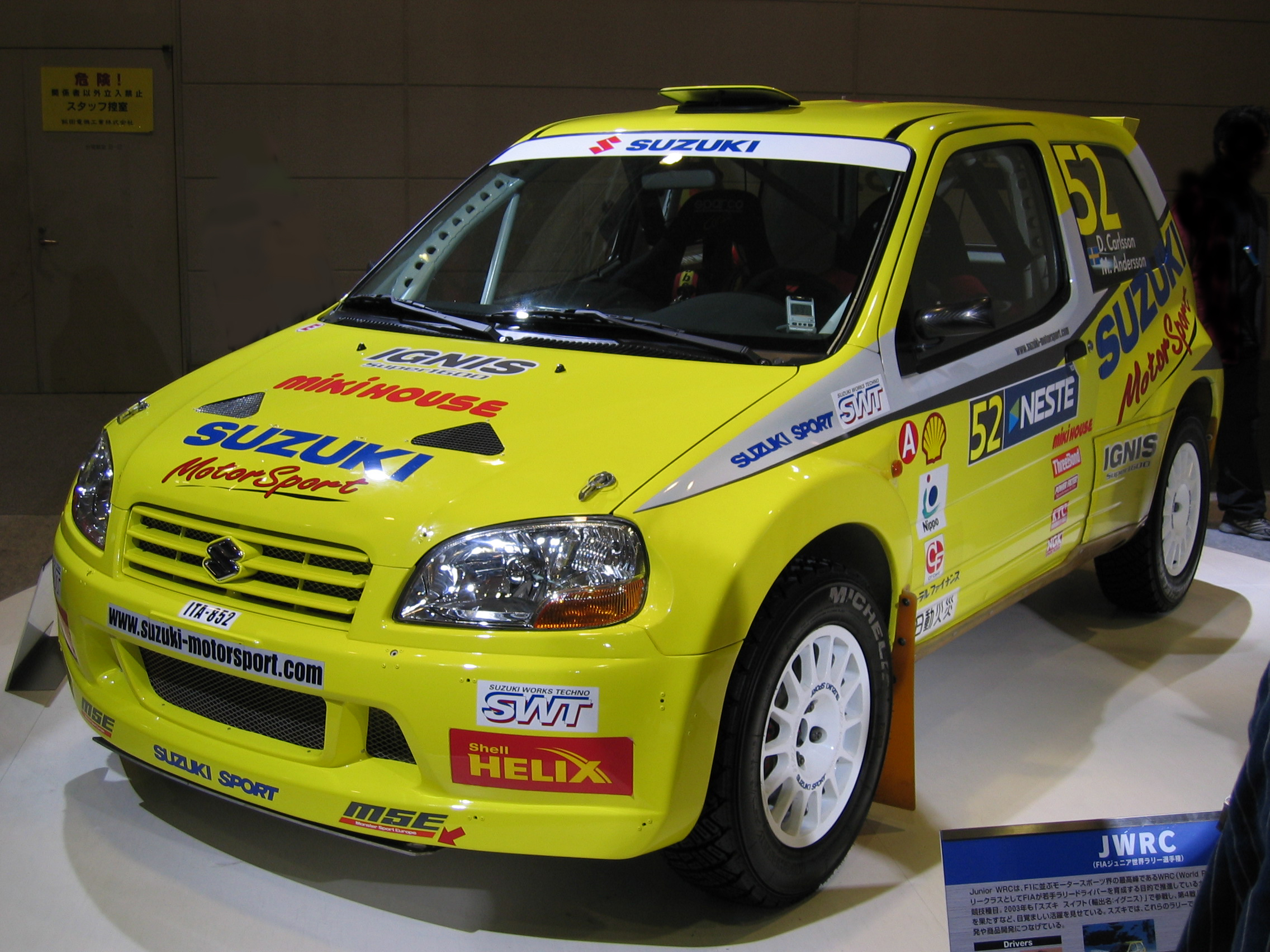 Suzuki Ignis (Swift in Japan) - Super 1600 Taken in Osaka Motor Show 2003